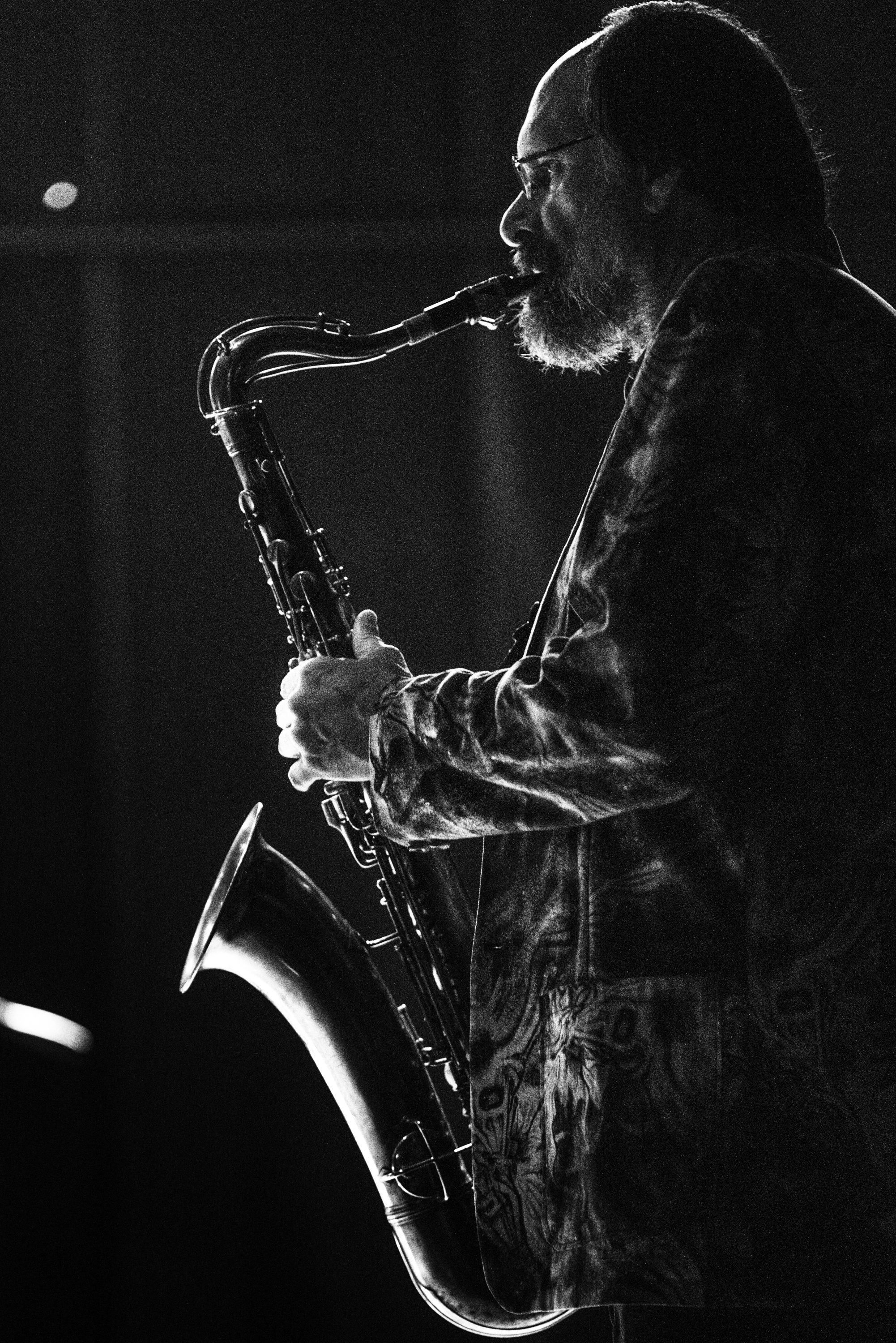 19º FESTIVAL INTERNACIONAL DE JAZZ DE PUNTA DEL ESTE Luis Perdomo Cuarteto Johnattan Blake / batería Hans Glawischnig /bajo Luis Perdomo / piano Mark Shim / saxo tenor – wind controller Martin Wind Cuarteto Homenaje a Bill Evans Bill Cunliffe /piano Joe La Barbera / batería Martin Wind / bajo Scott Robinson / saxotenor Paquito D'Rivera presenta: Homenaje a Chano Pozo Alex Brown /piano Eric Doob / batería Zachary Brown / bajo Pernell Saturnino /percusión Diego Urcola / trompeta Paquito D'Rivera / saxo alto FINCA EL SOSIEGO, Maldonado, Uruguay Camera: NIKON D810 Lens: Zeiss Apo Sonnar T* 2/135 ZF.2 0 ISO: 3200